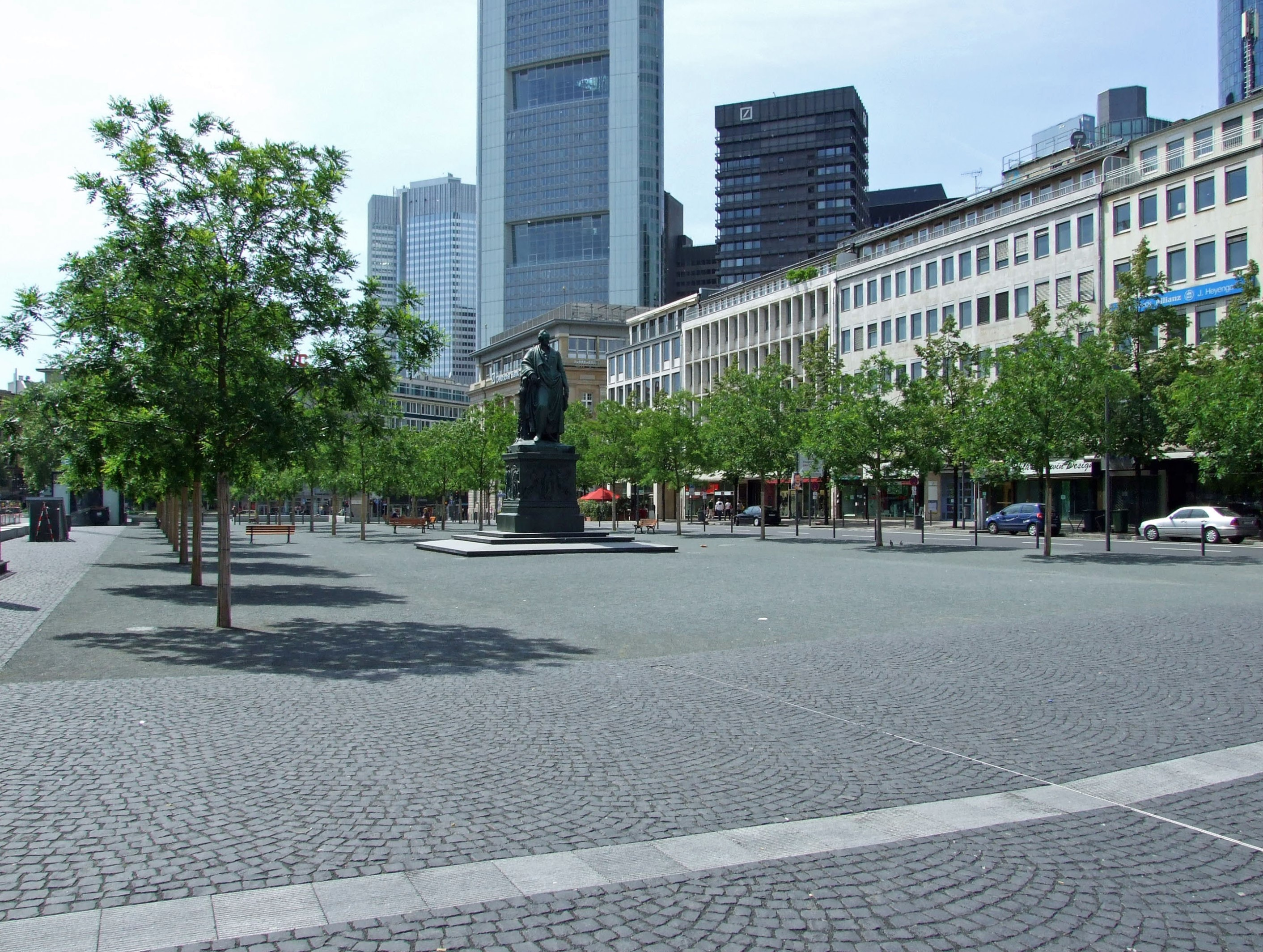 "Goetheplatz" with "Goethe-Monument", in Frankfurt am Main-Innenstadt